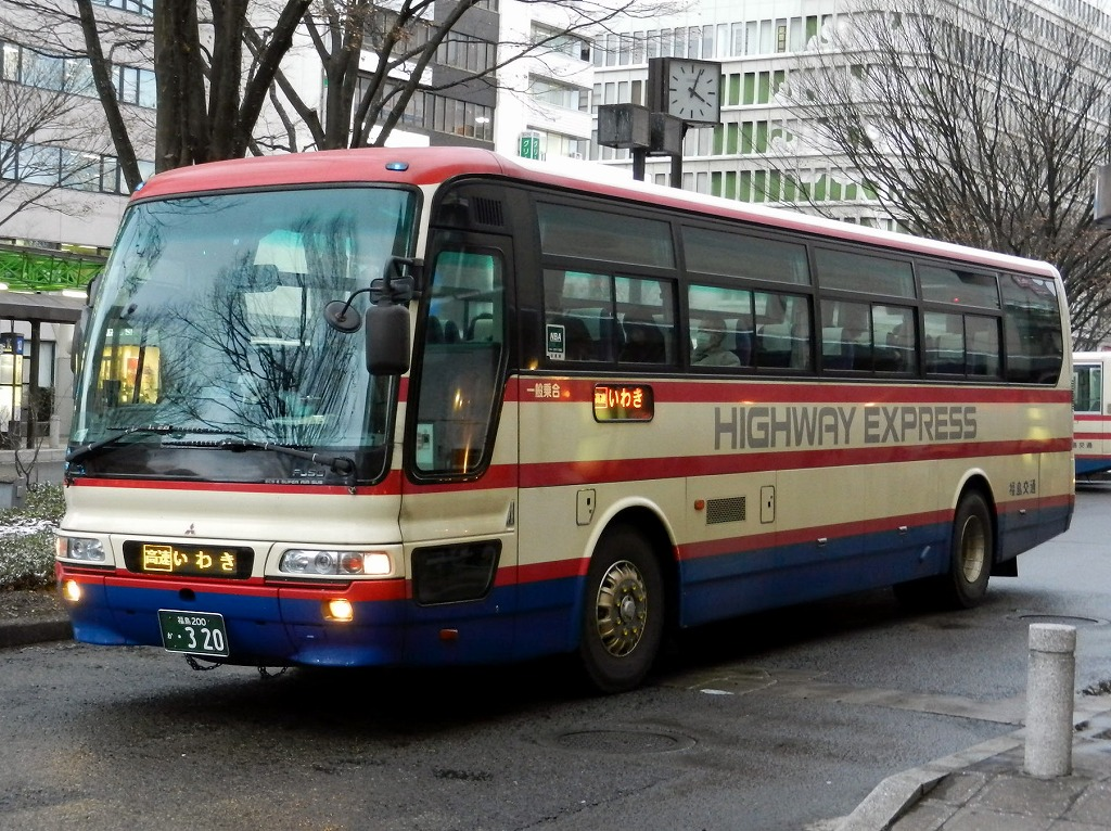 Fukushima kotsu Mitsubishi Fuso Aero Bus (KL-MS86MP) Highwaybus "Fukushima-Iwaki"